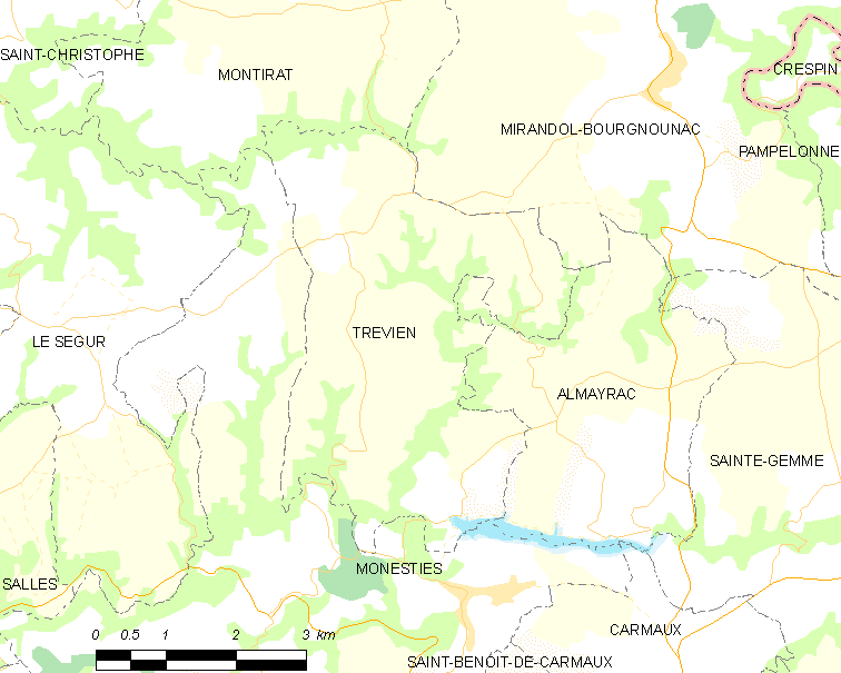 Map of French municipality Trévien